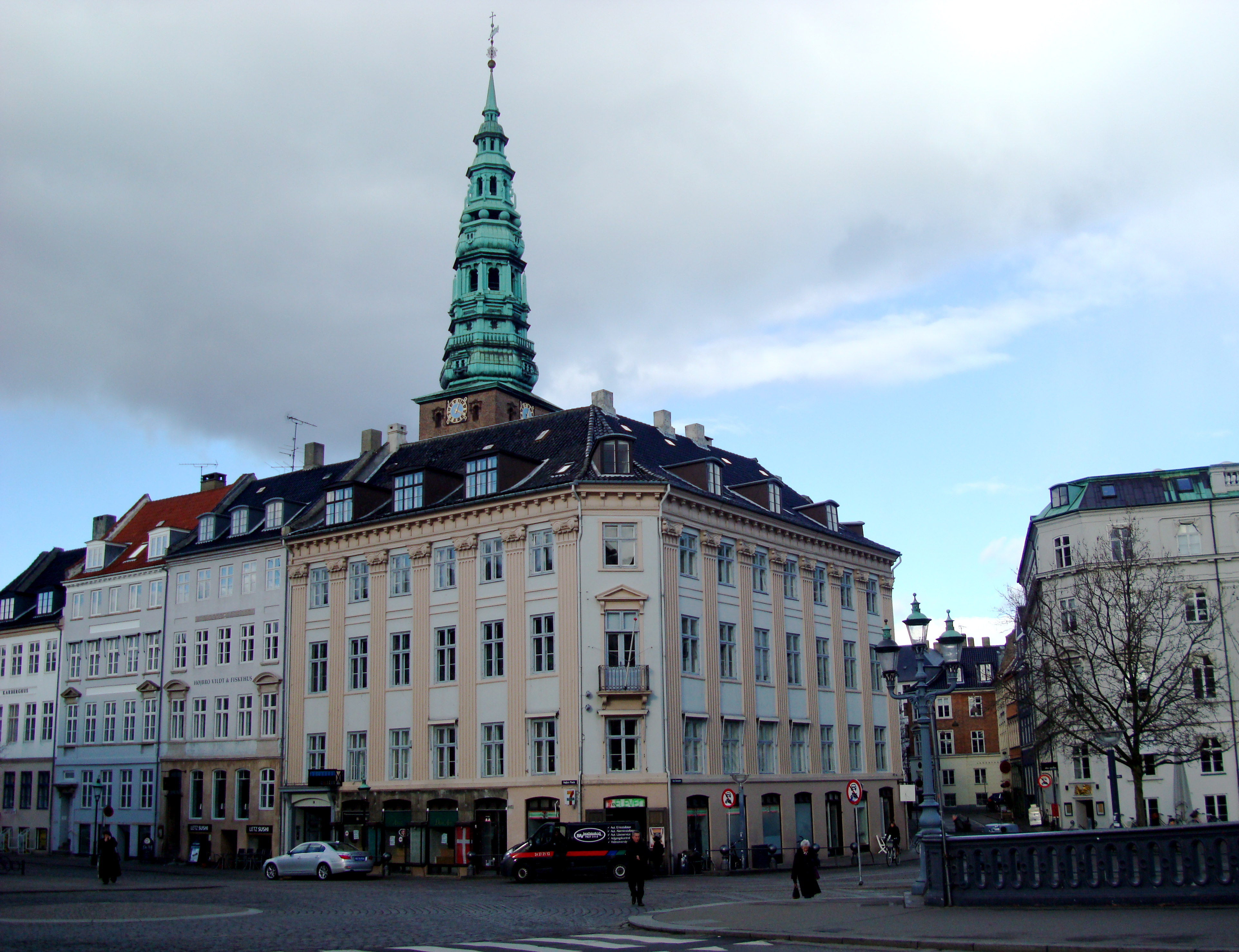 The corner building 21 Højbro Plads by Andreas Hallander in Copenhagen, Denmark